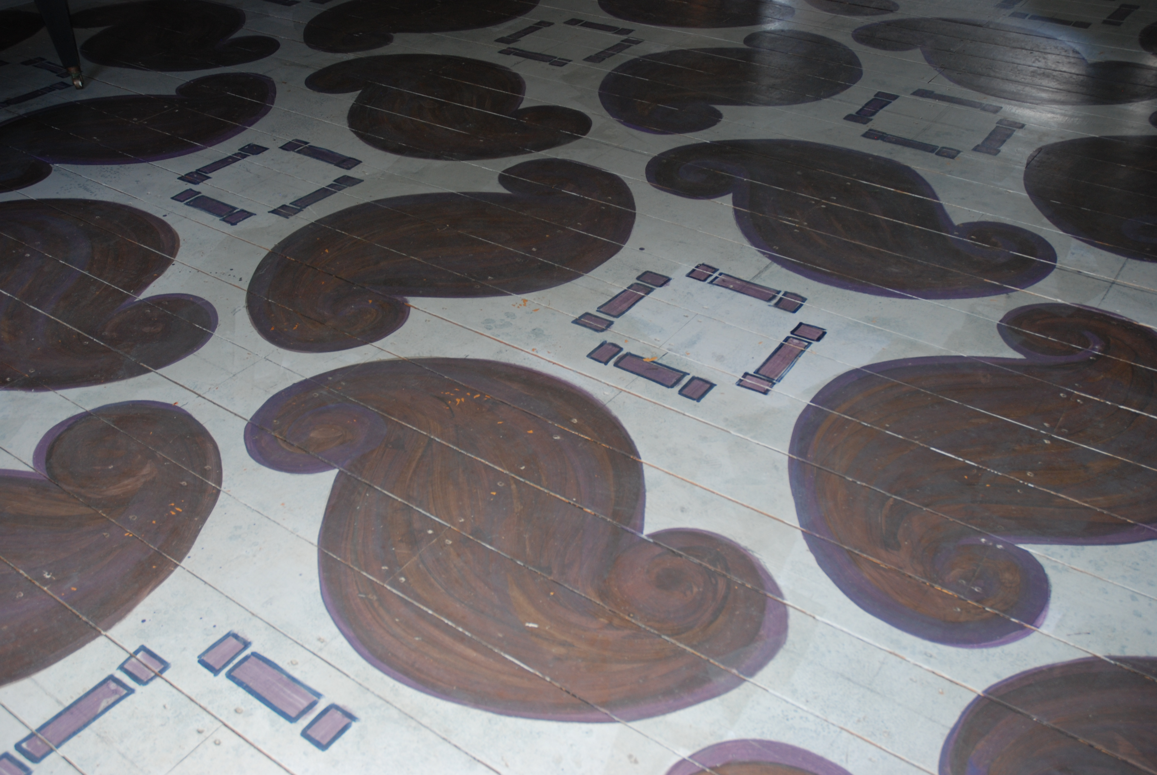 Gunillaberg. Painted floor tiles in front hall of the main building.